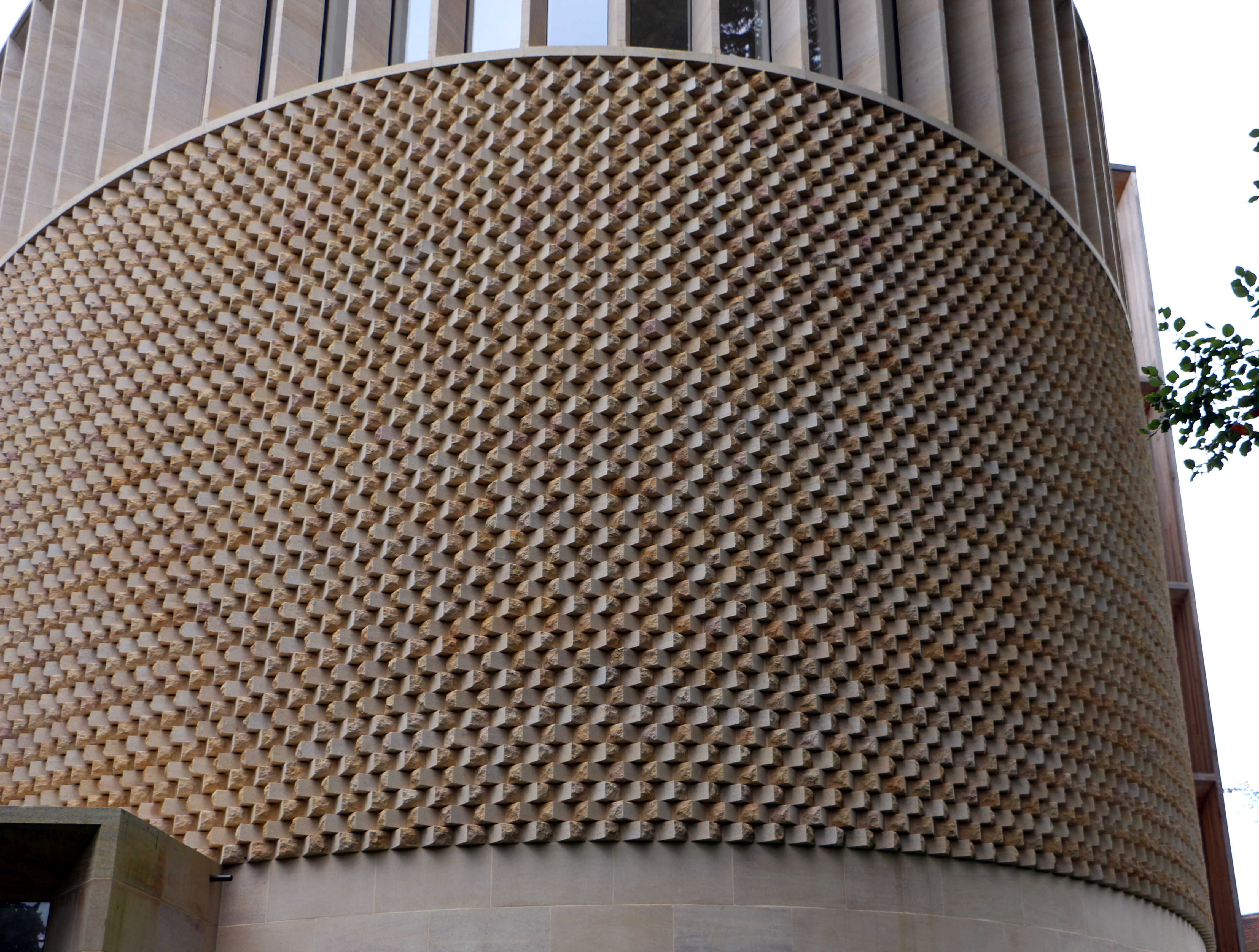 Part of Bishop Edward King Chapel, Ripon College Cuddesdon, Oxfordshire